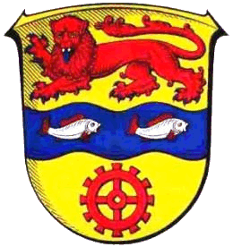 Coat of Arms of Weilrod